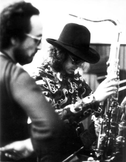 Durante la pausa in studio di registrazione con Gato Barbieri